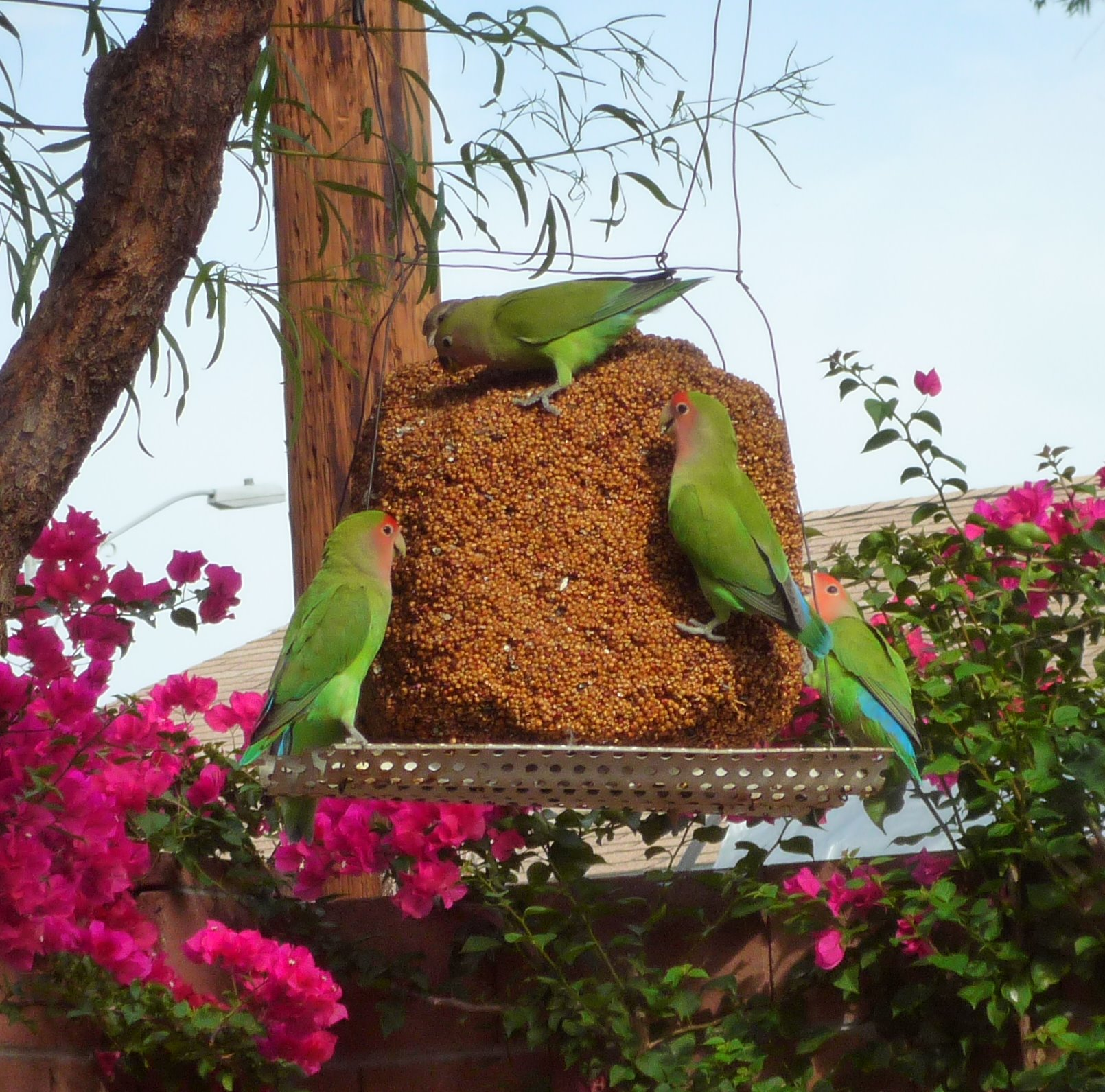 Peach-faced Lovebirds (also known as the Rosy-faced Lovebird) eating seeds from a seed-block garden bird feeder in a garden in Scottsdale, Arizona, USA.